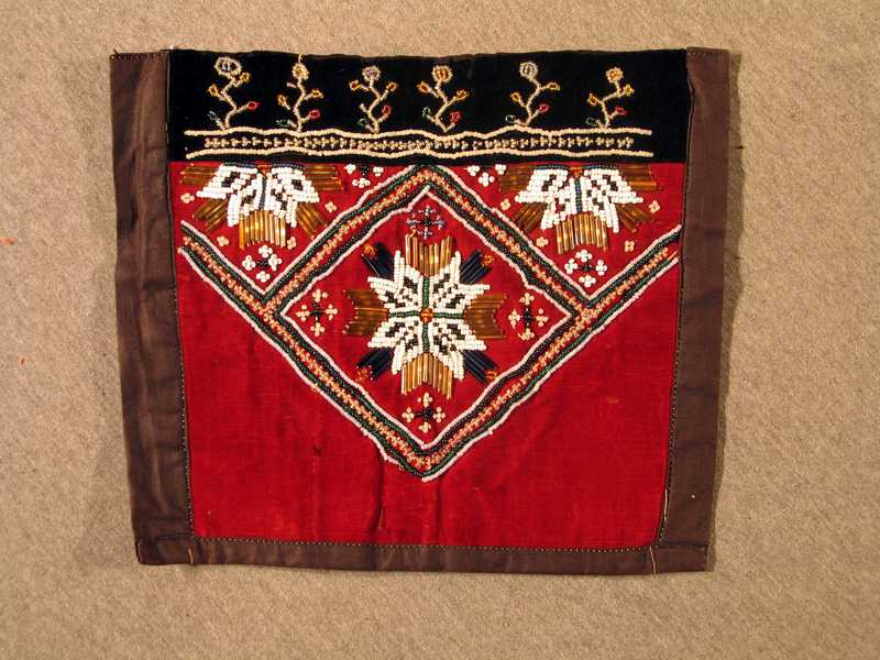 Beading from Norwegian folk comstume (bunad).